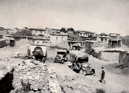 Greek army trucks in Anatolia passing through a town/village.